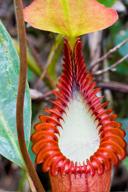 Nepenthes edwardsiana photographed on Mount Tambuyukon, Borneo (Alastair Robinson, May 2007) - detail of peristome. 427 x 640 px.